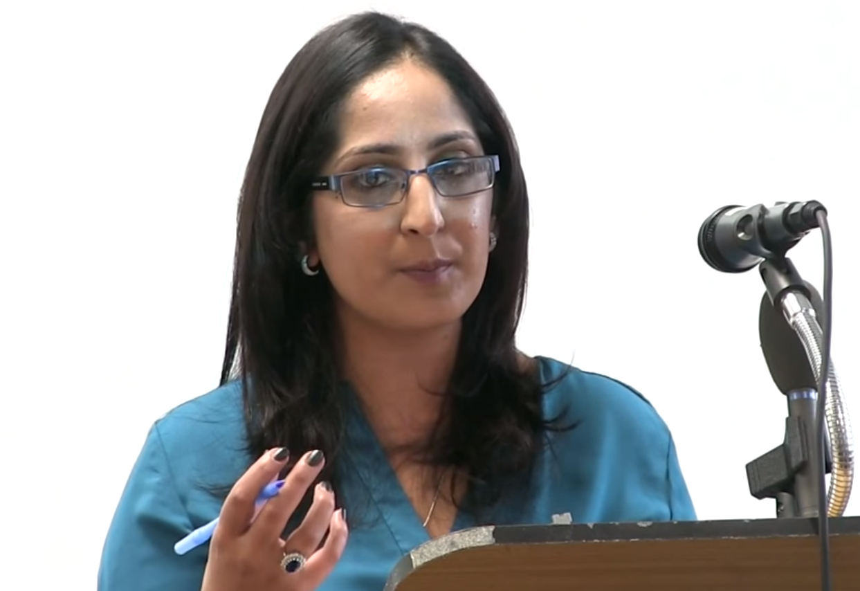 Aliyah Saleem at the Secular Conference 2015 speaking on “Faith schools in Britain: music is out, compulsory headscarves and CCTV cameras are in".